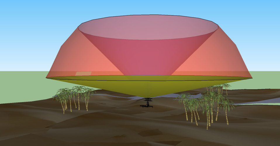 A simple 3D diagram (from Google Sketch) showing a representative radar coverage pattern. The rounded surface is the maximum range of the system (which may be "soft"), the lower limit is selected to avoid reflections from the ground, and the upper surface is the maximum angle, a factor of the antenna design.